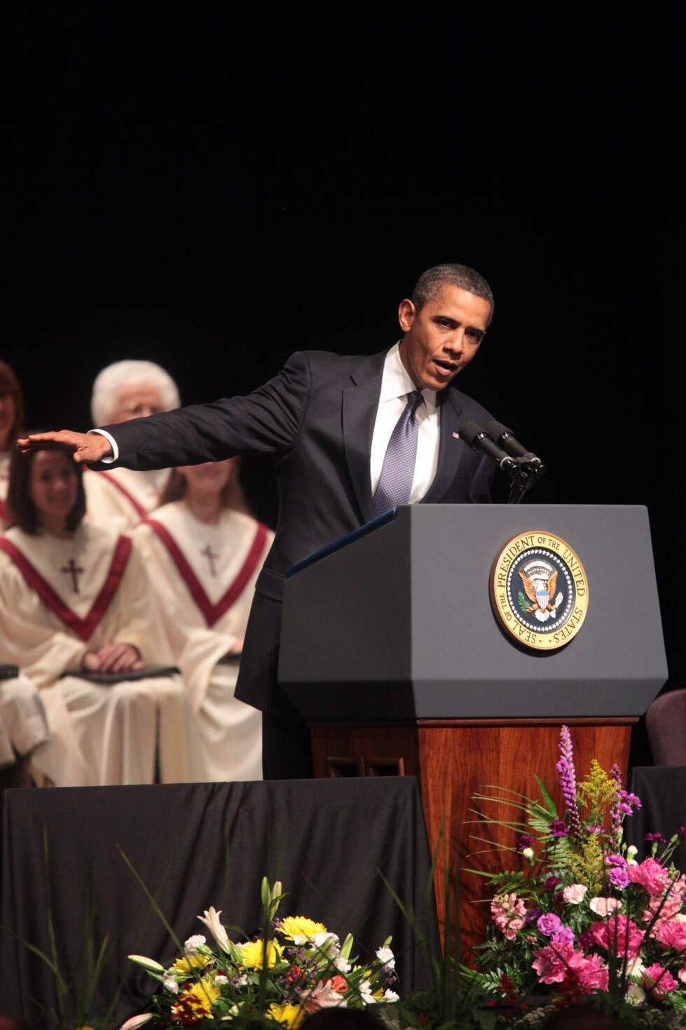 Barack Obama at Southern Missouri State University following 2011 Joplin Tornado